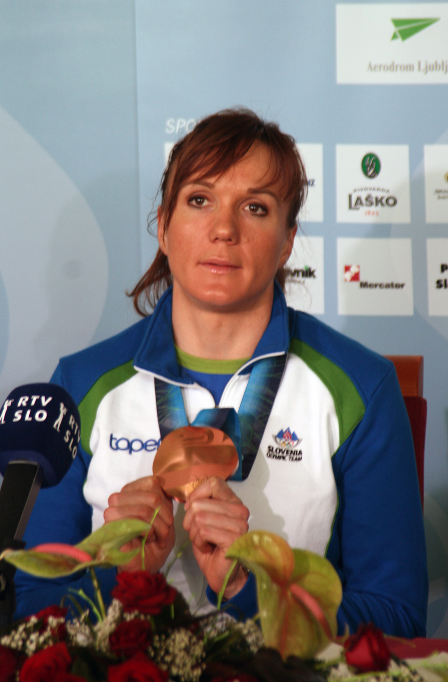 Petra Majdič after 2010 Winter Olympics